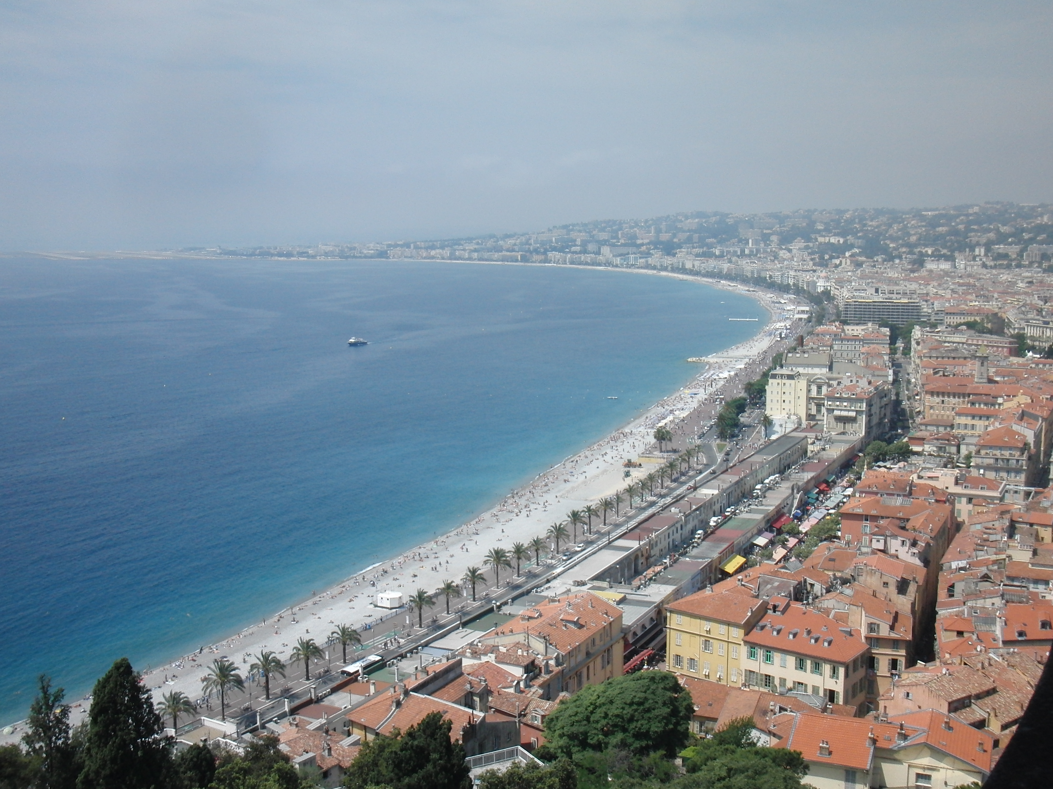 Bay of Angels and Promenade des Anglais in Nice, France